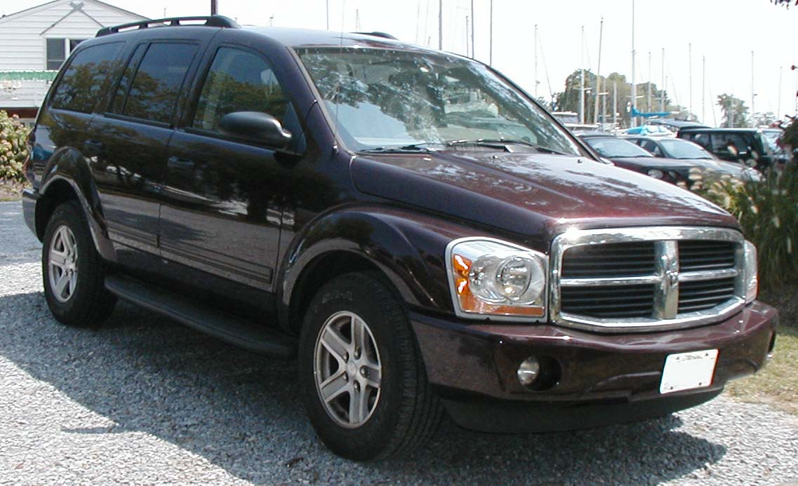 2004-2006 Dodge Durango photographed in USA.